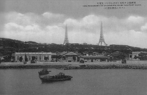 Naha Port circa 1930